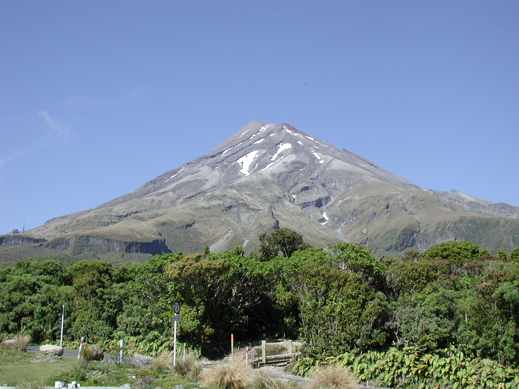 Mount Taranaki in summer, from north road end car park.